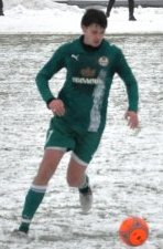 Yevhen Lozynskyi